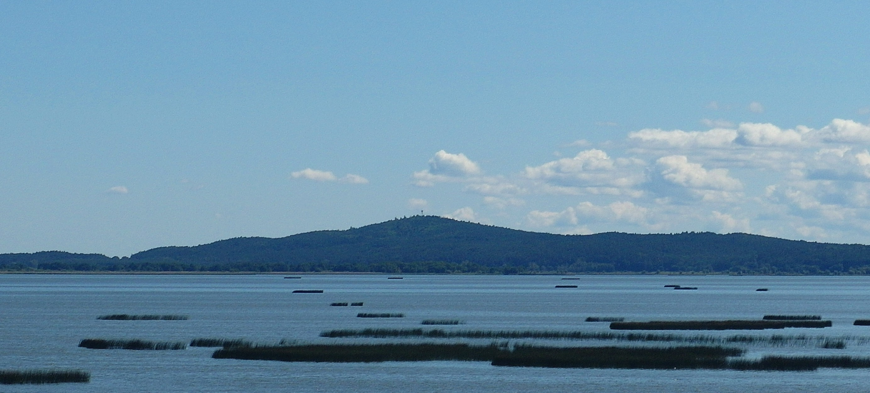 Rowokół and Lake Gardno